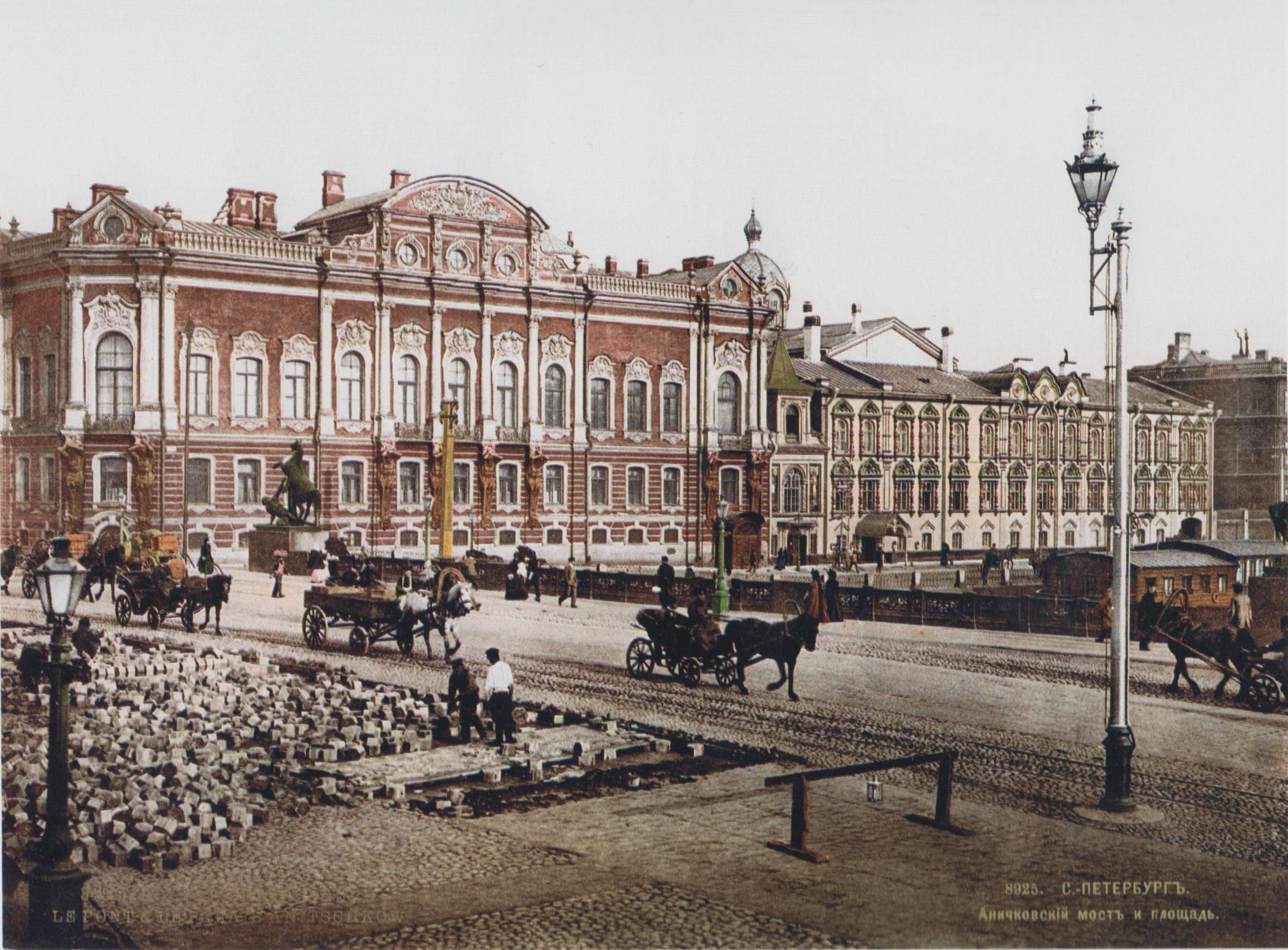 Beloselsky-Belozersky Palace and Anichkov Bridge over Fontanka River in Saint Petersburg, Russia. Colored photochrome print; 16 x 22 cm. (6 x 8 1/2 in.)